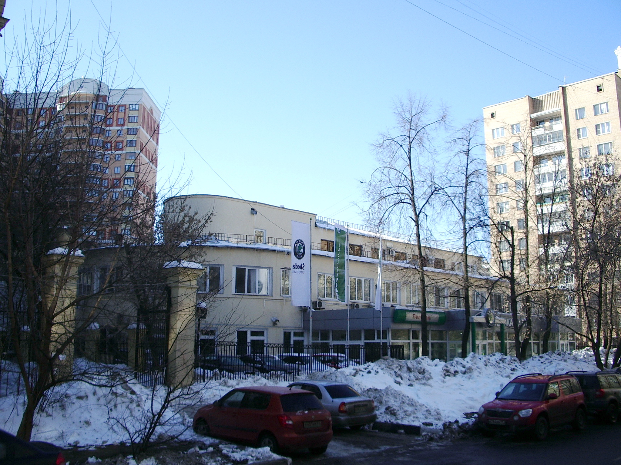 Ostryakova street 3. Moscow.